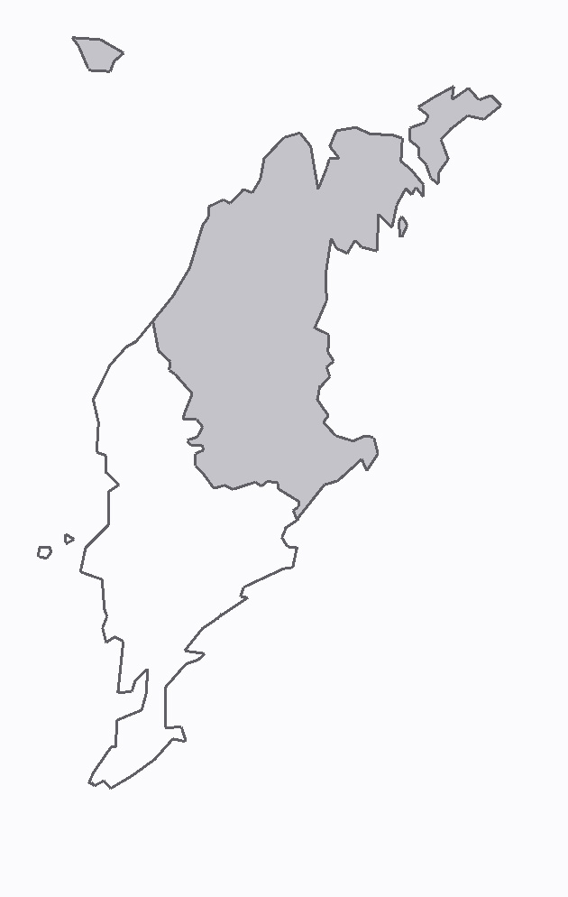 Map describing the location of Gotland Northern Hundred on the isle of Gotland, Sweden.